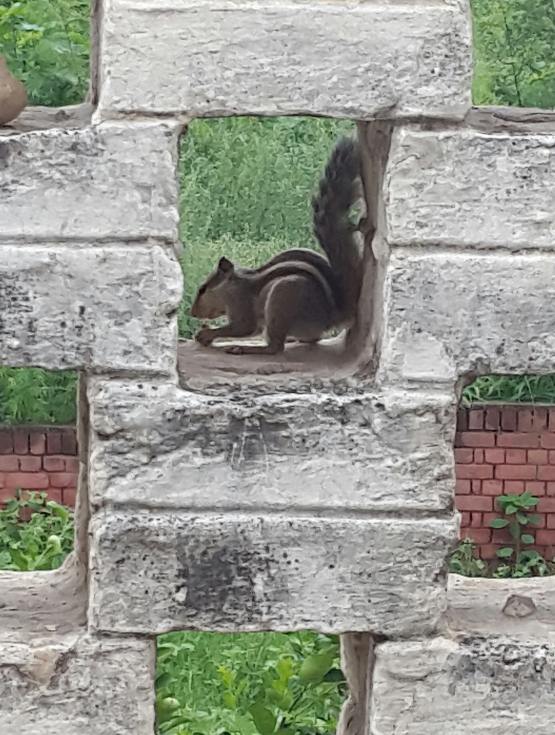 Squirrels